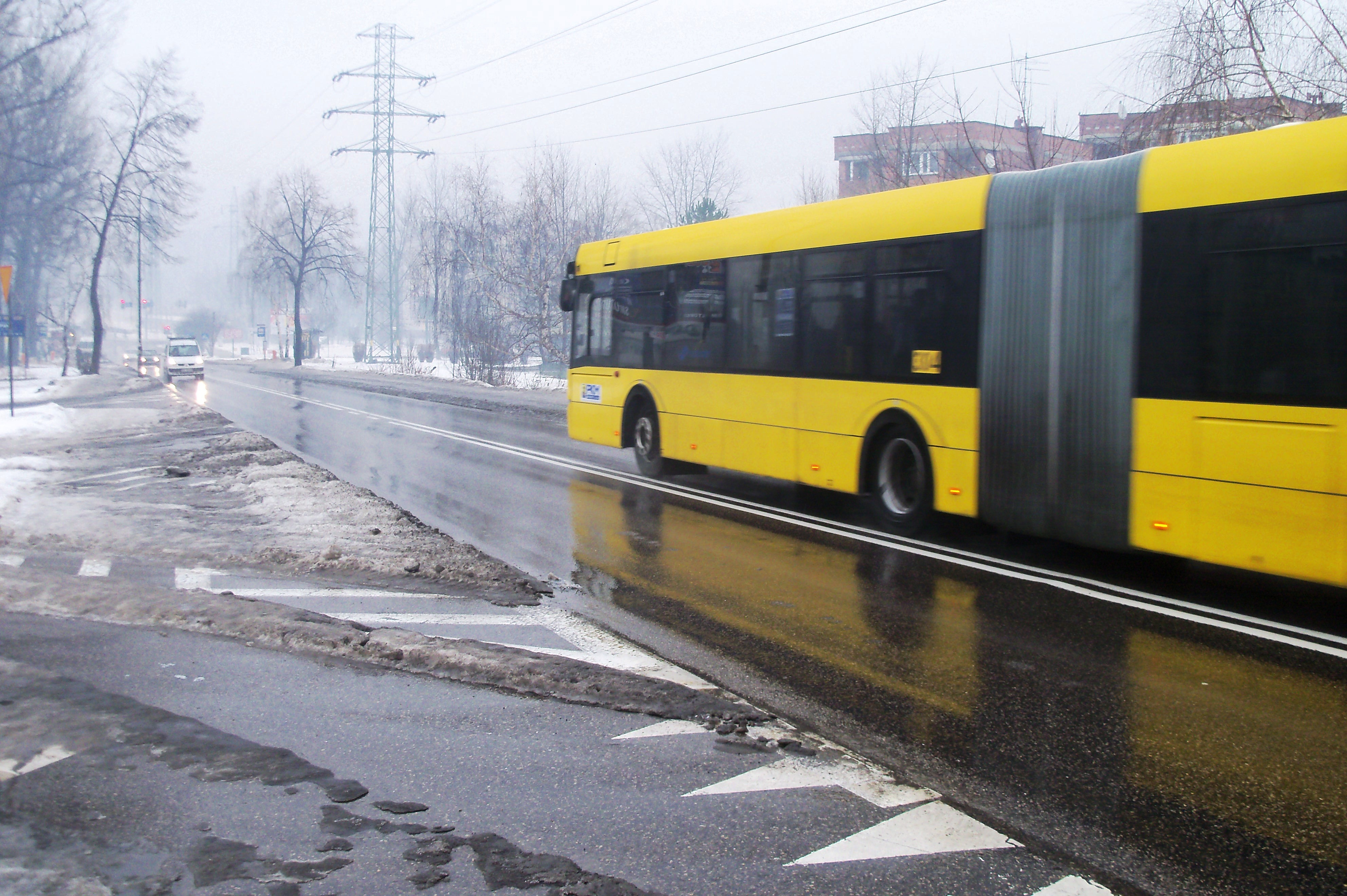 Solaris Urbino 18 bus (#314) in Katowice, Poland. Built 2010. PKM Katowice operator.